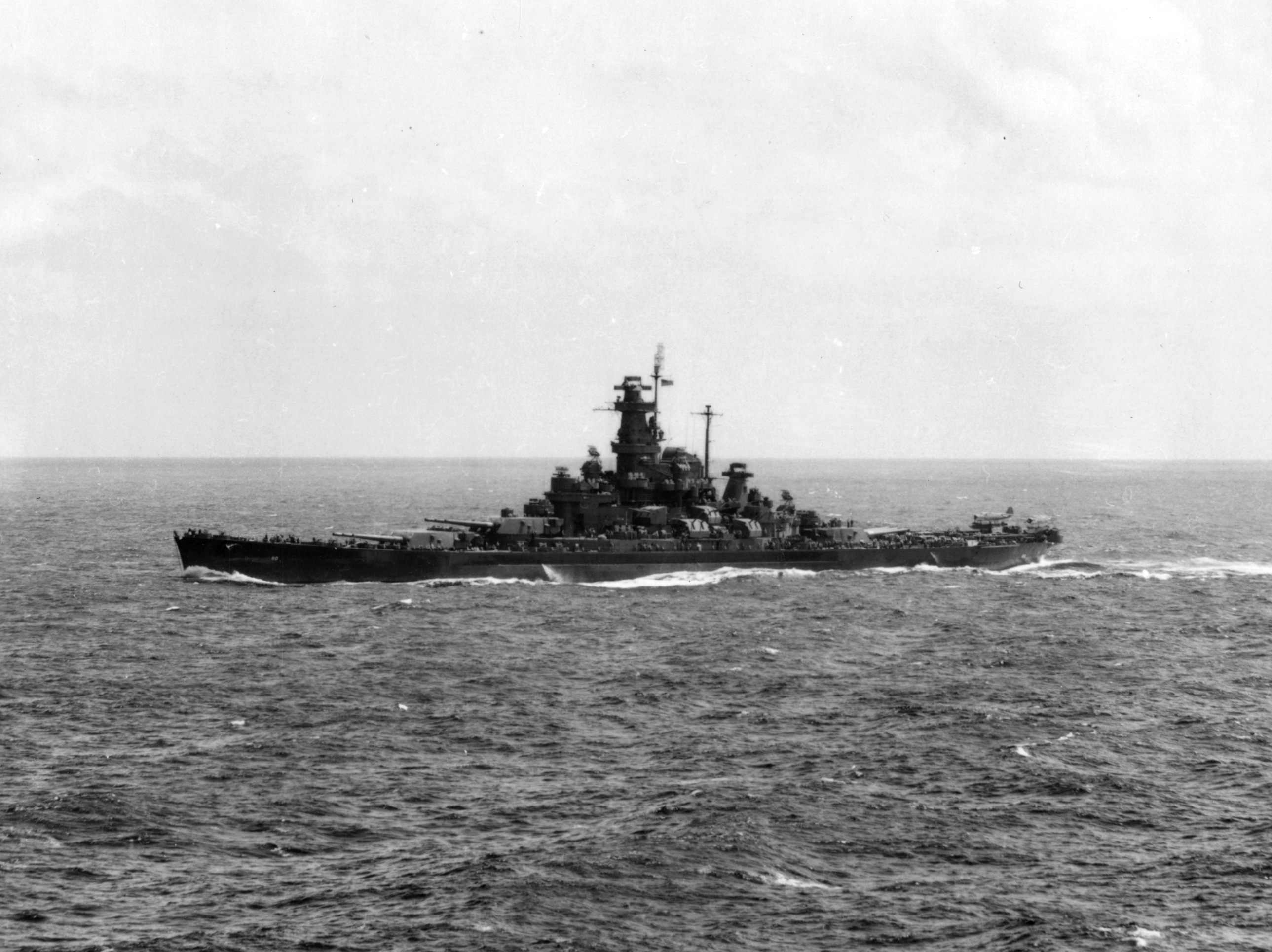 The U.S. Navy battleship USS Alabama (BB-60) underway in the Pacific with Task Force 58.2, circa 1943-1944.